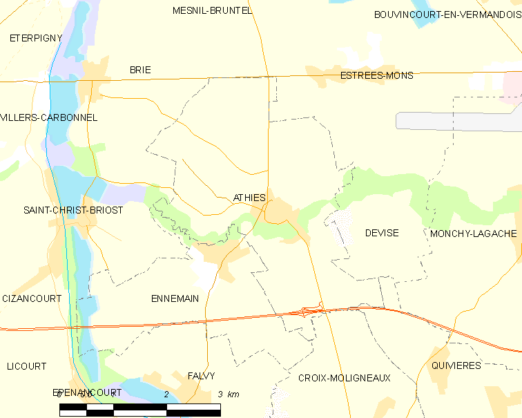 Map of French municipality Athies